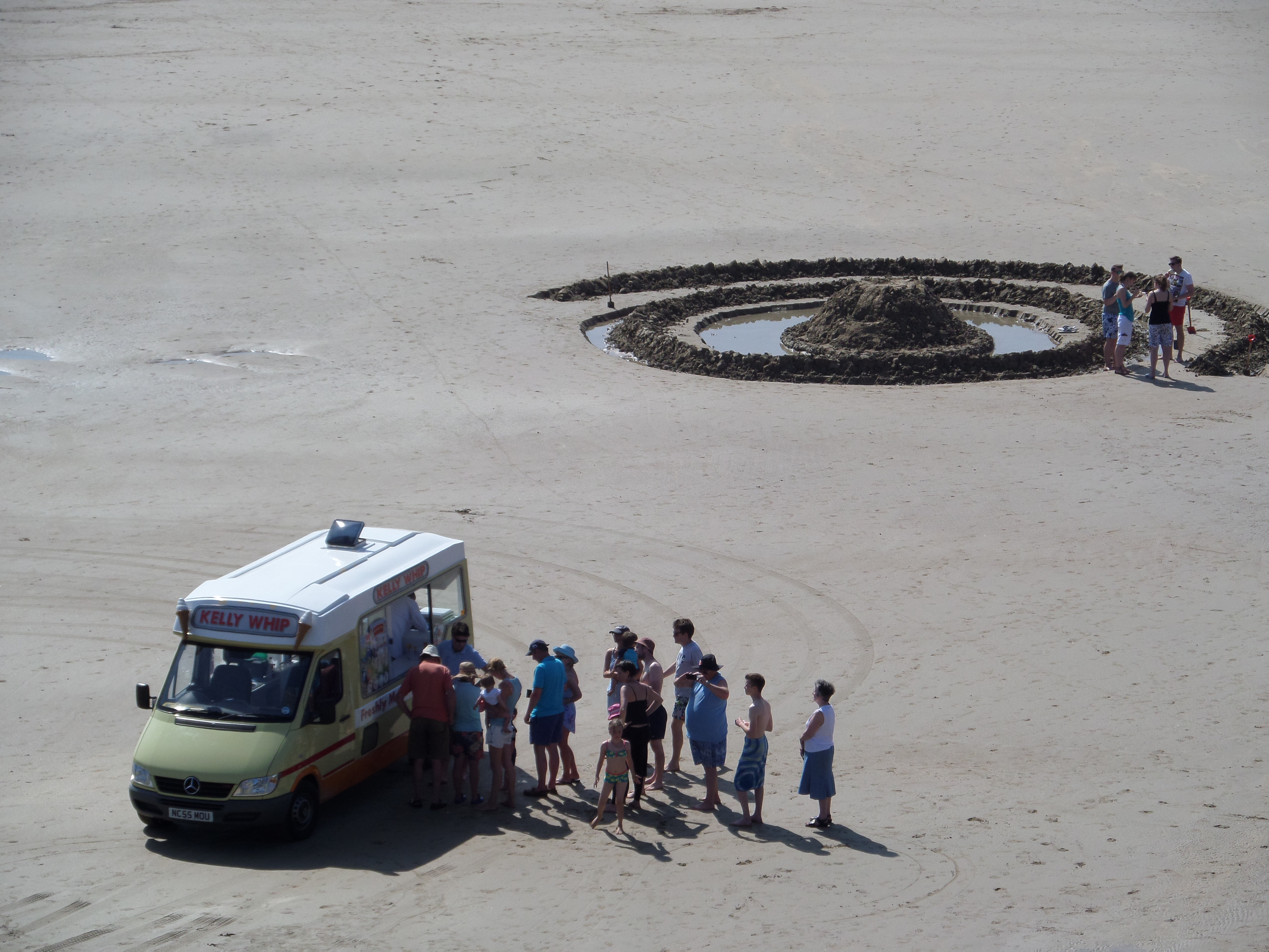 Polzeath Beach, Cornwall. Mercedes Sprinter Kellys Ice Cream Van